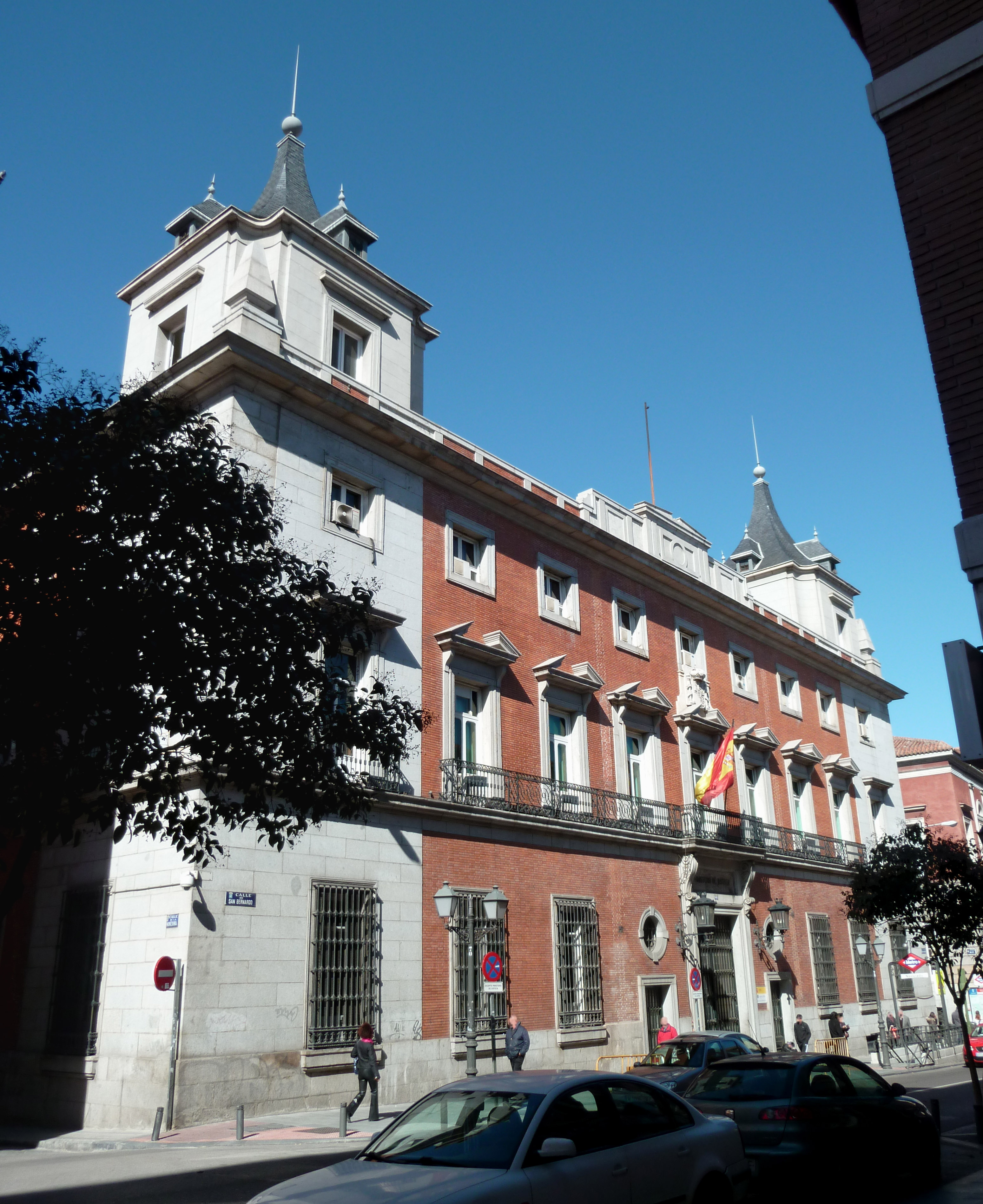 East façade of the Spanish Ministry of Justice, at 45 Calle de San Bernardo (street) in Centro district in Madrid. Building was projected in 1797 by Evaristo del Castillo and built from 1797 to 1828 as a palace for the marchioness of Sonora.